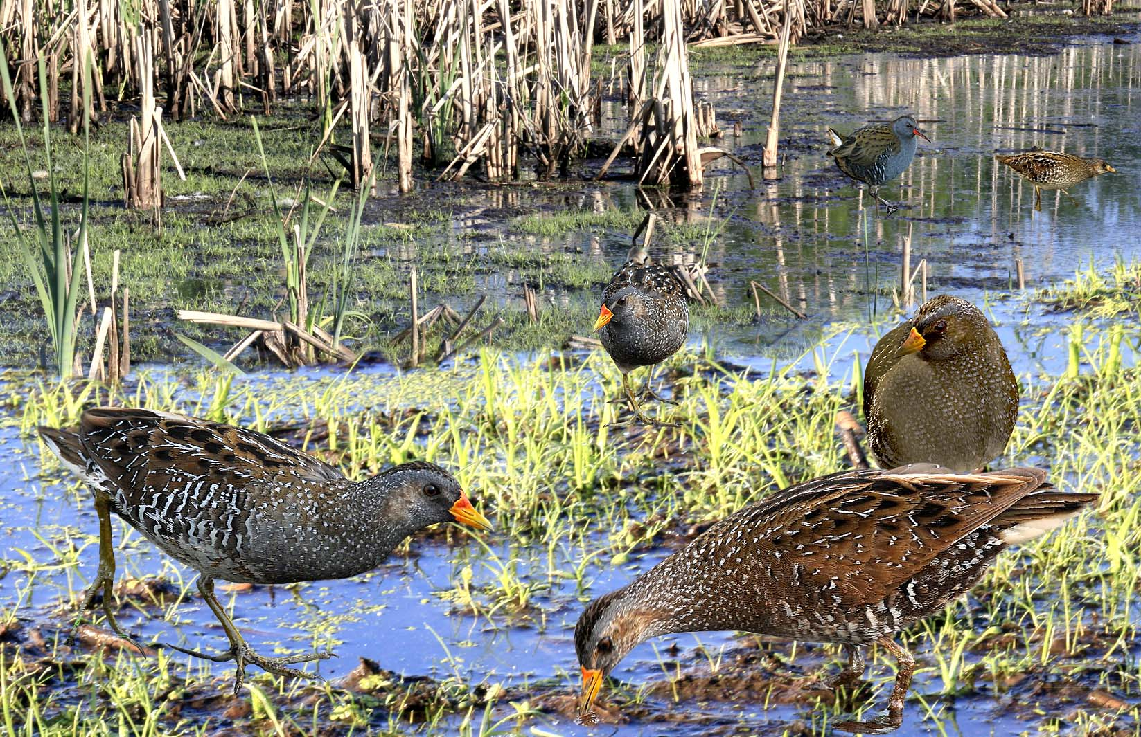 Spotted Crake from the Crossley ID Guide Britain and Ireland